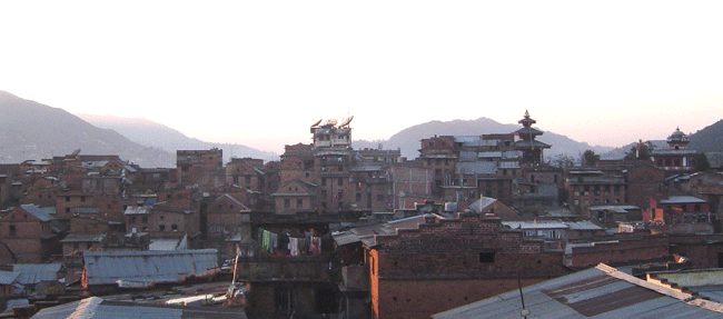 Dhulikhel, Nepal